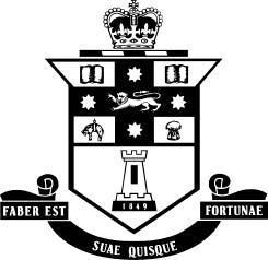 Crest of Fort Street High School, created Circa 1849. Not trademarked according to IP Australia